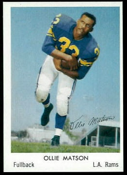 A 1959 promotional image of Los Angeles Rams player Ollie Matson.